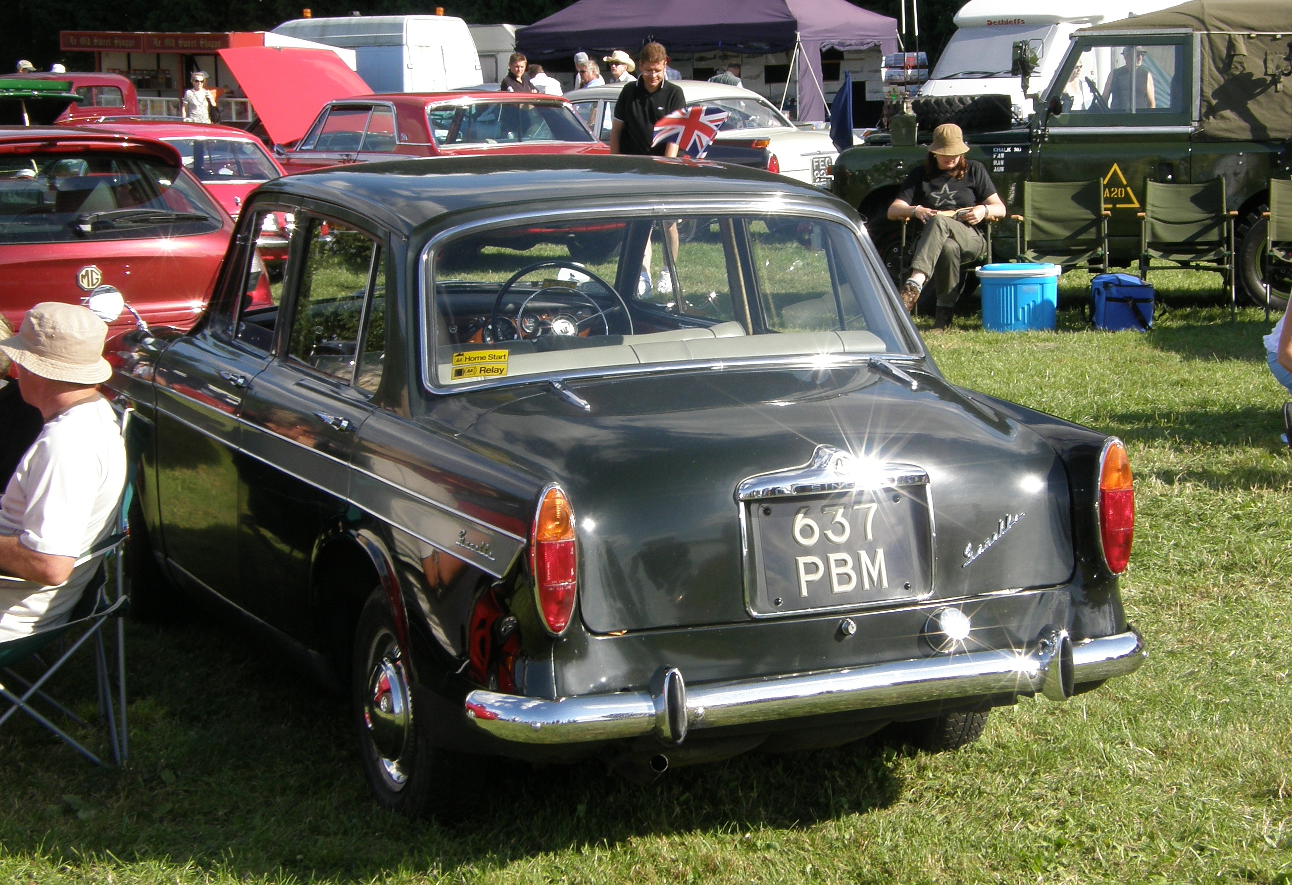 Singer Gazelle V of 1964. Original description - My Dad had one of these when I was about 12, except ours was dark blue with a light blue flash and light blue leather. Its registration number was 238 GRM.